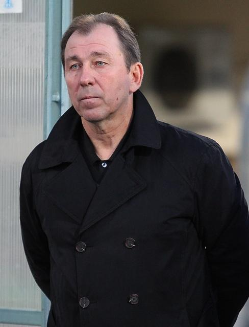 Sergei Pavlov coaching FC Luch-Energiya Vladivostok in 2011.